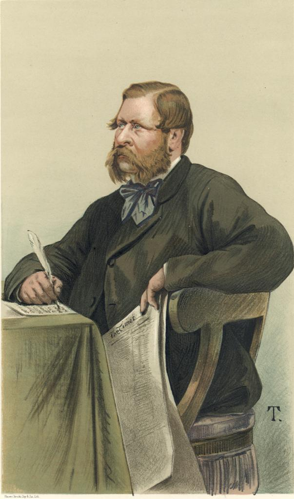 Caricature of William Henry Waddington.Caption read "France at the Congress".